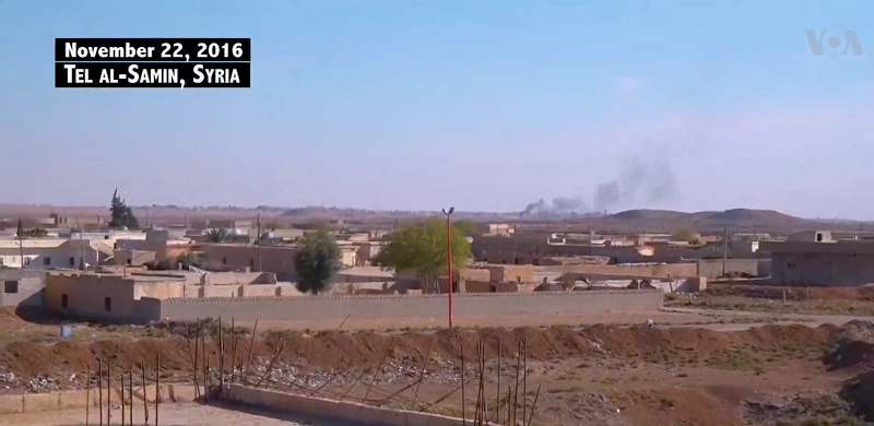 Tel al-Samin after being captured by SDF fighters.